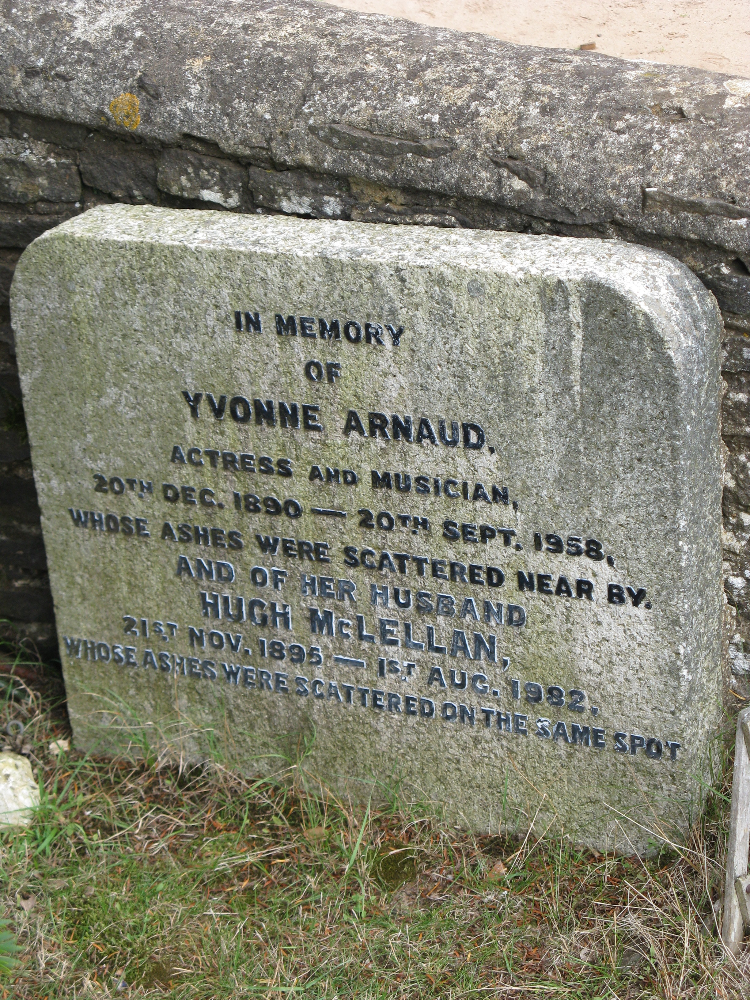 picture of Yvonne Arnaud's grave marker from Saint Martha's churchyard, near Guildford Surrey